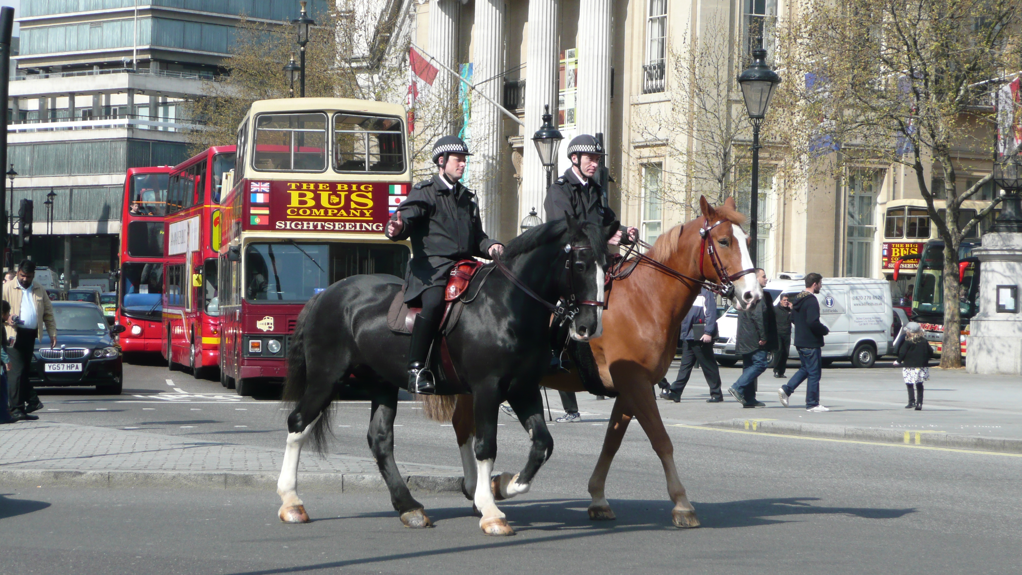 Two mounted police officers of the Metropolitan Police on horses trotting around Trafalgar Square in London.